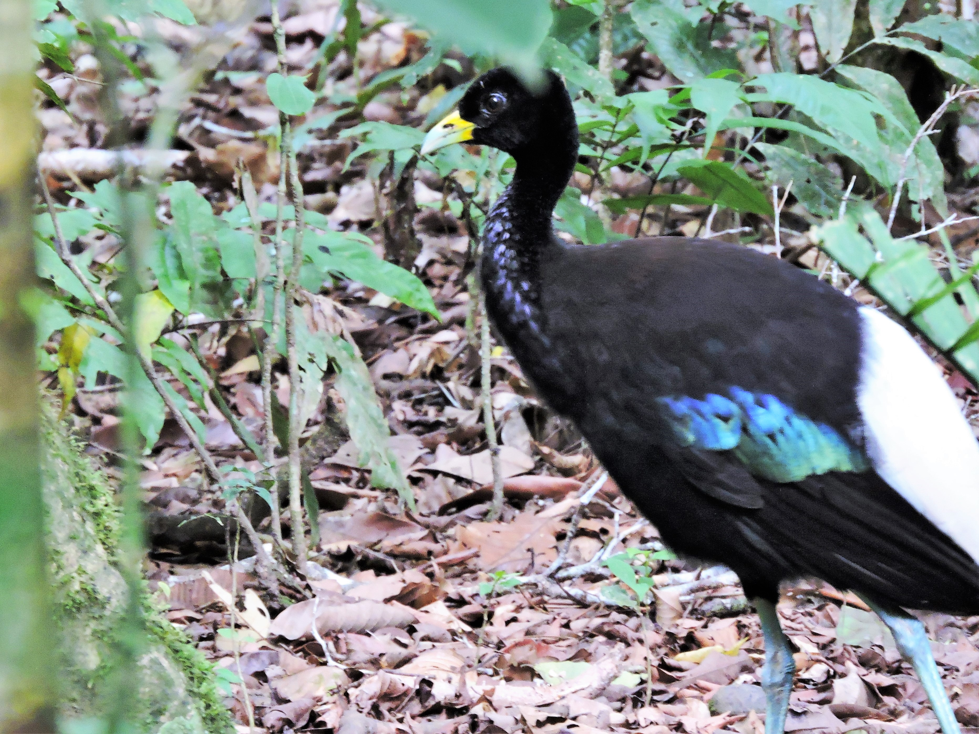 Grey-winged trumpeter (Psophia crepitans)